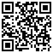 QR code containing a link to Wikimedia Commons